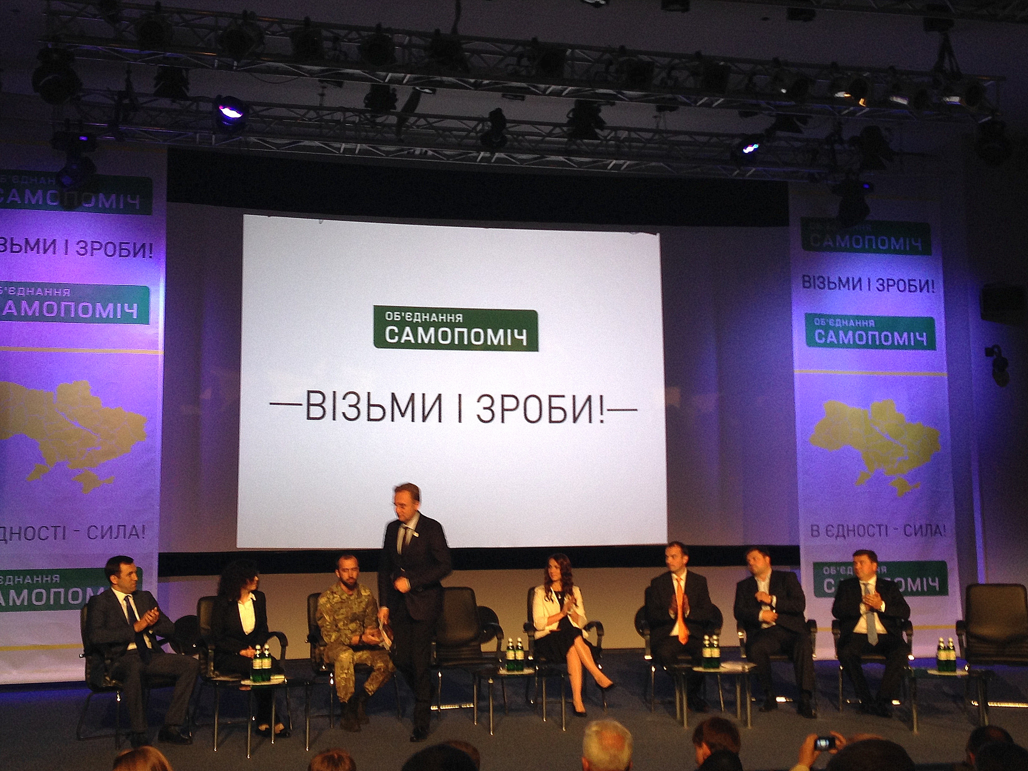 Andriy Sadovyy. Samopomich's presentation in Kiev, 23 Sep 2014